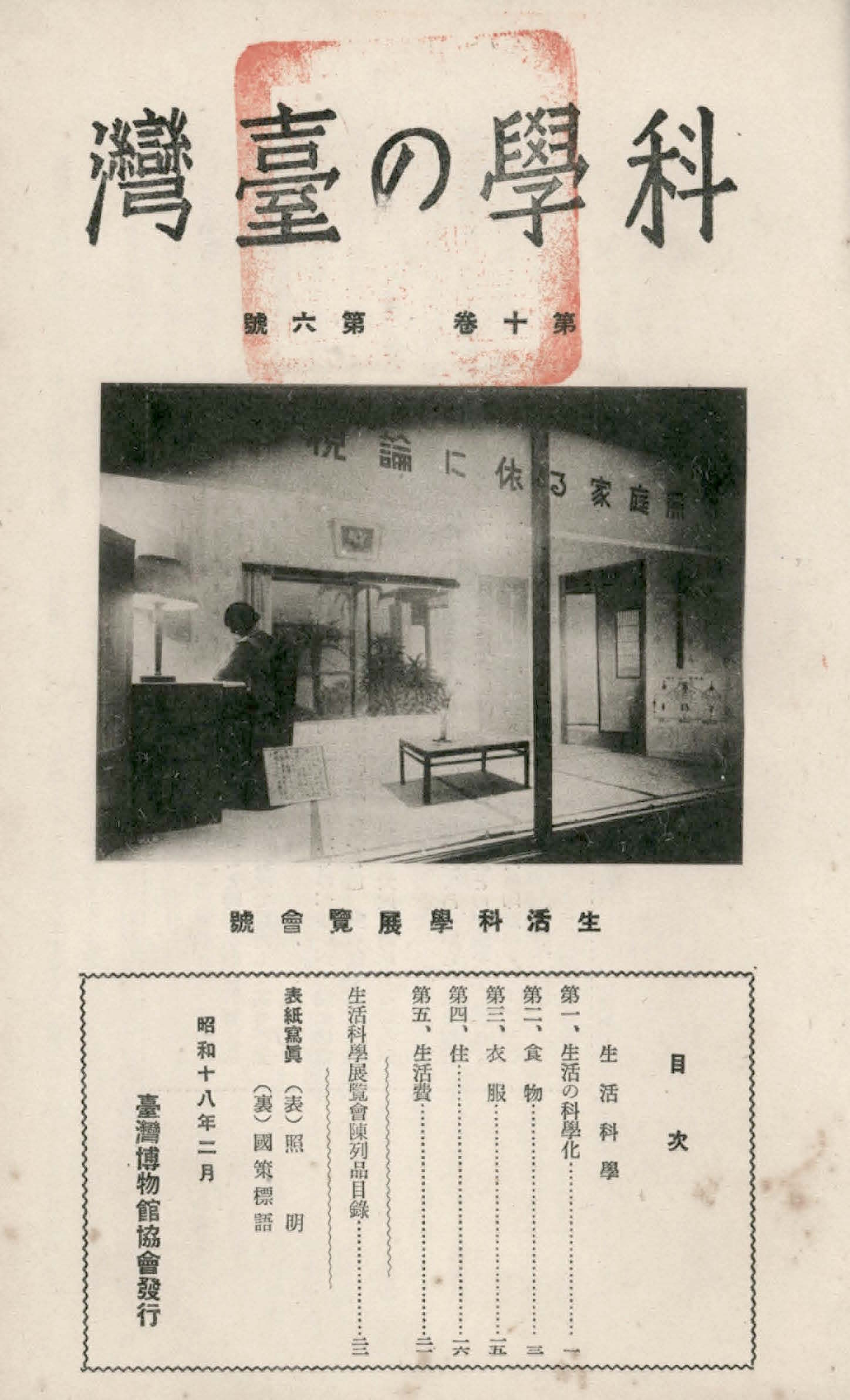 Kagaku no Taiwan, a popular science magazine publisher by the Taiwan Museum.